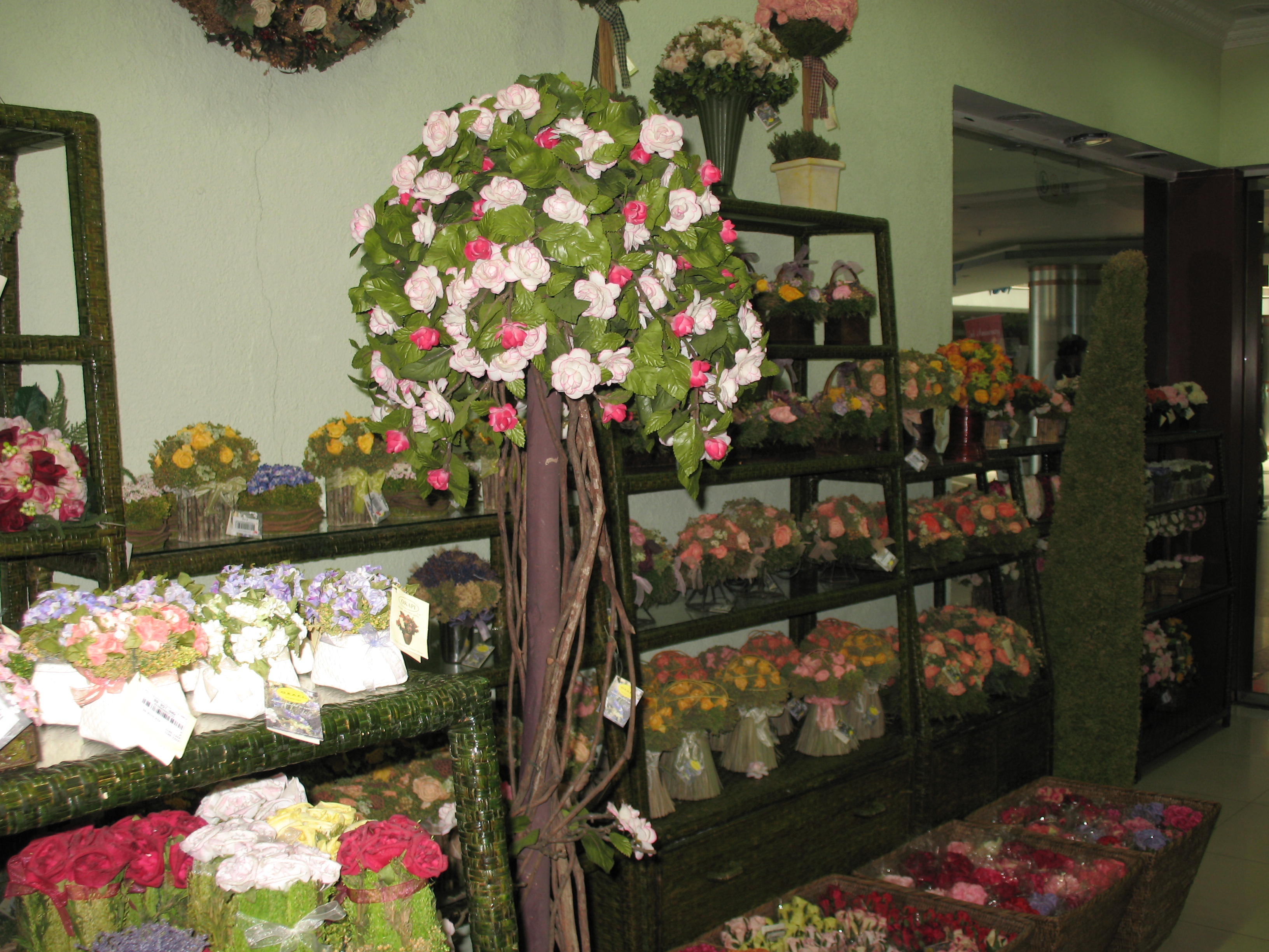 Artificial Flowers for sale in Bangalore in Garuda Mall . Ranges from INR 100 to INR 50,000